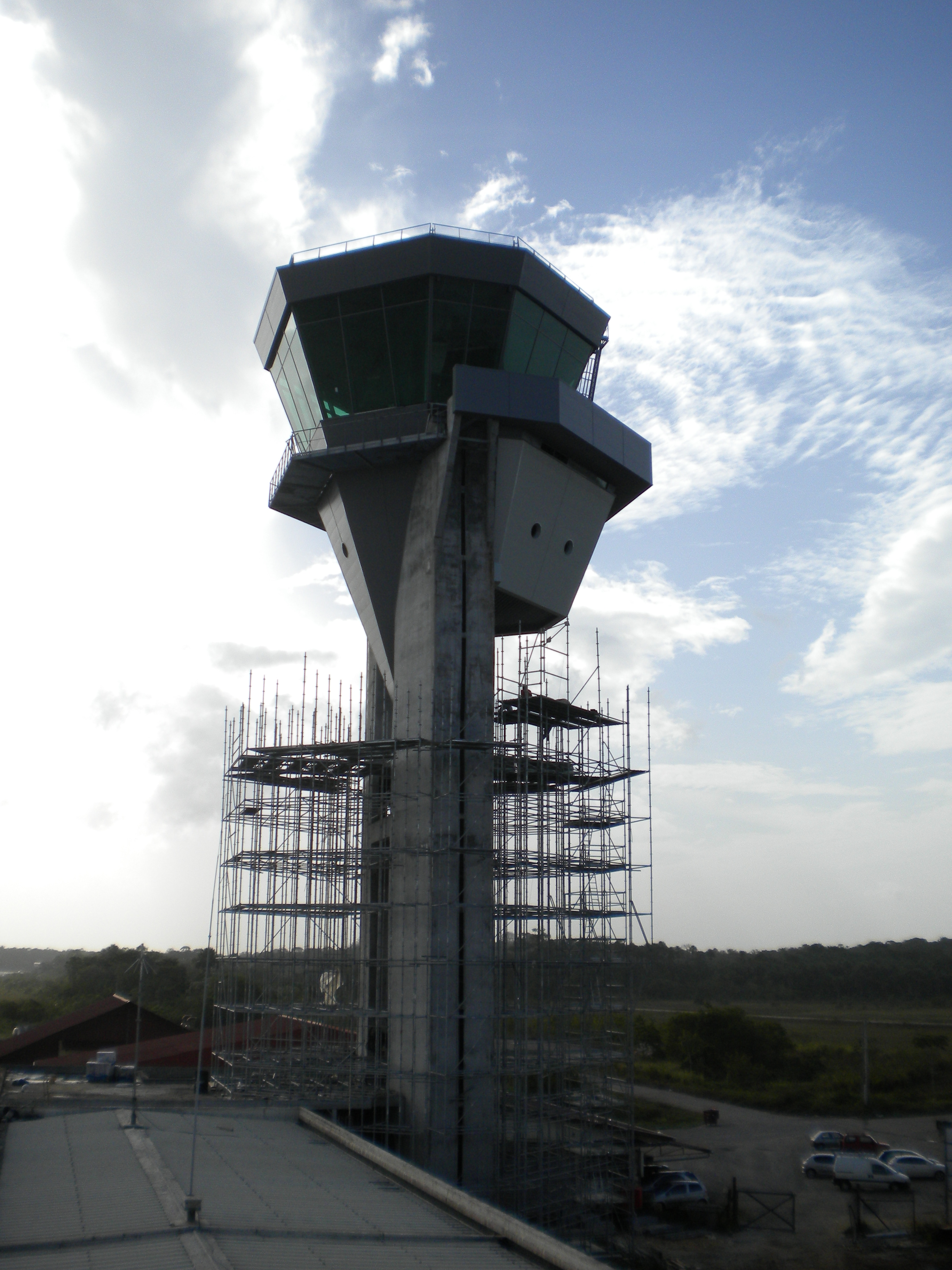 Rochambeau international airport's new control tower